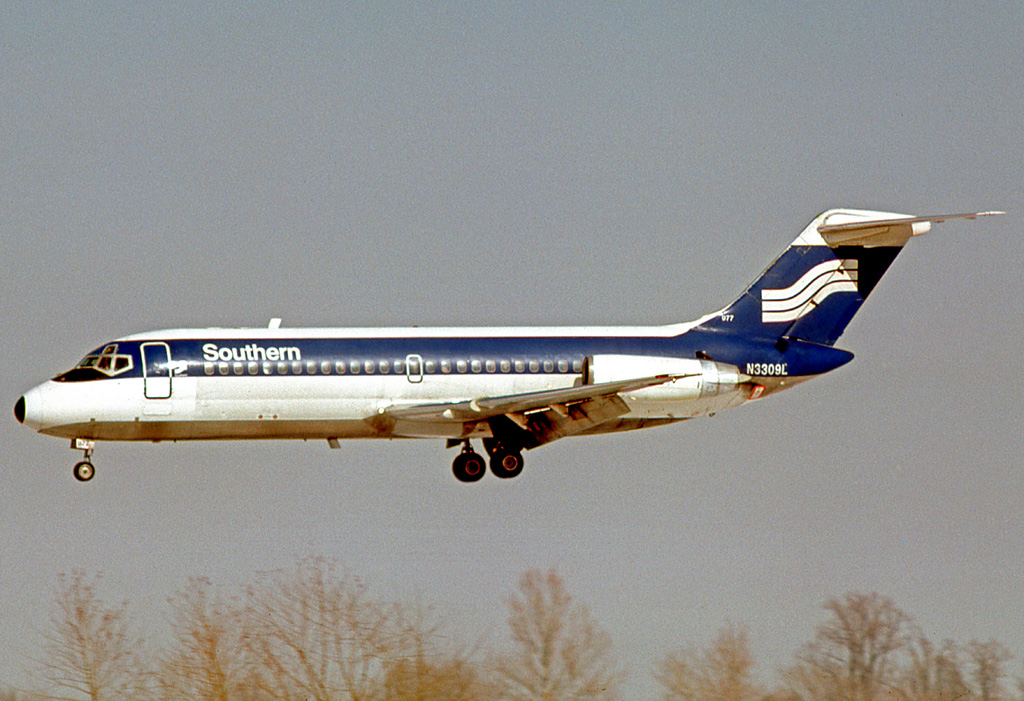 Douglas DC-9-14 of Southern Airways landing at St Louis Missouri in 1978